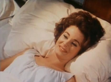 Sandra Church in The Ugly American - trailer (cropped screenshot)